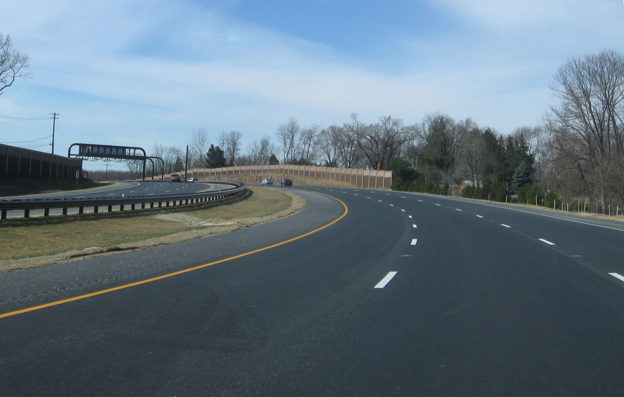 The Intercounty Connector westbound near mile marker 4.2.